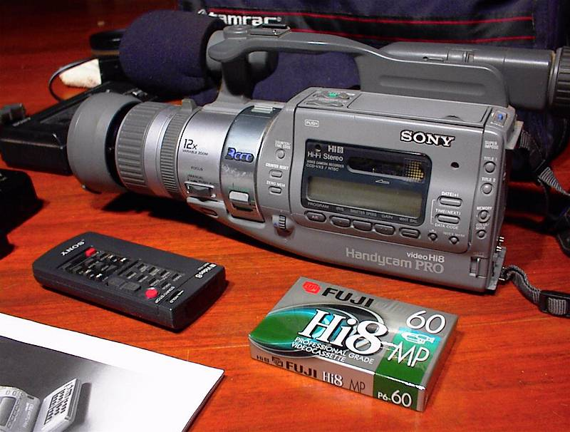 Sony CCD-VX3 with accessories. My own unit, photographed by myself in 2002.